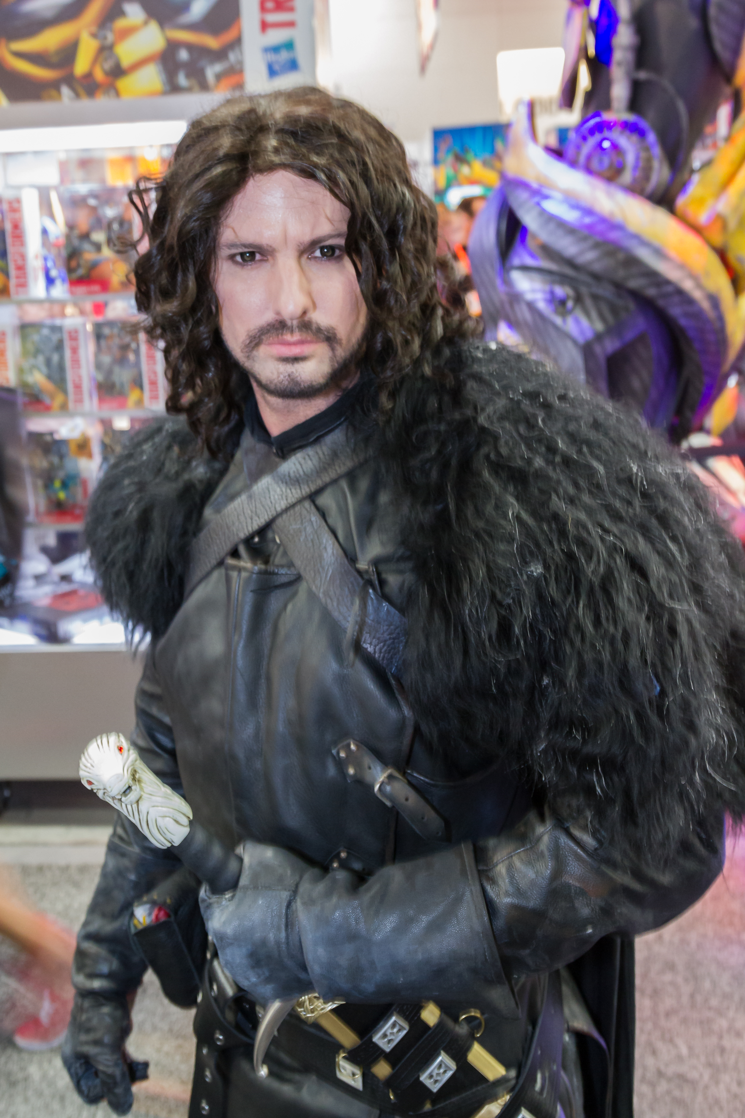 Cosplay at San Diego Comic-Con (SDCC 2014).